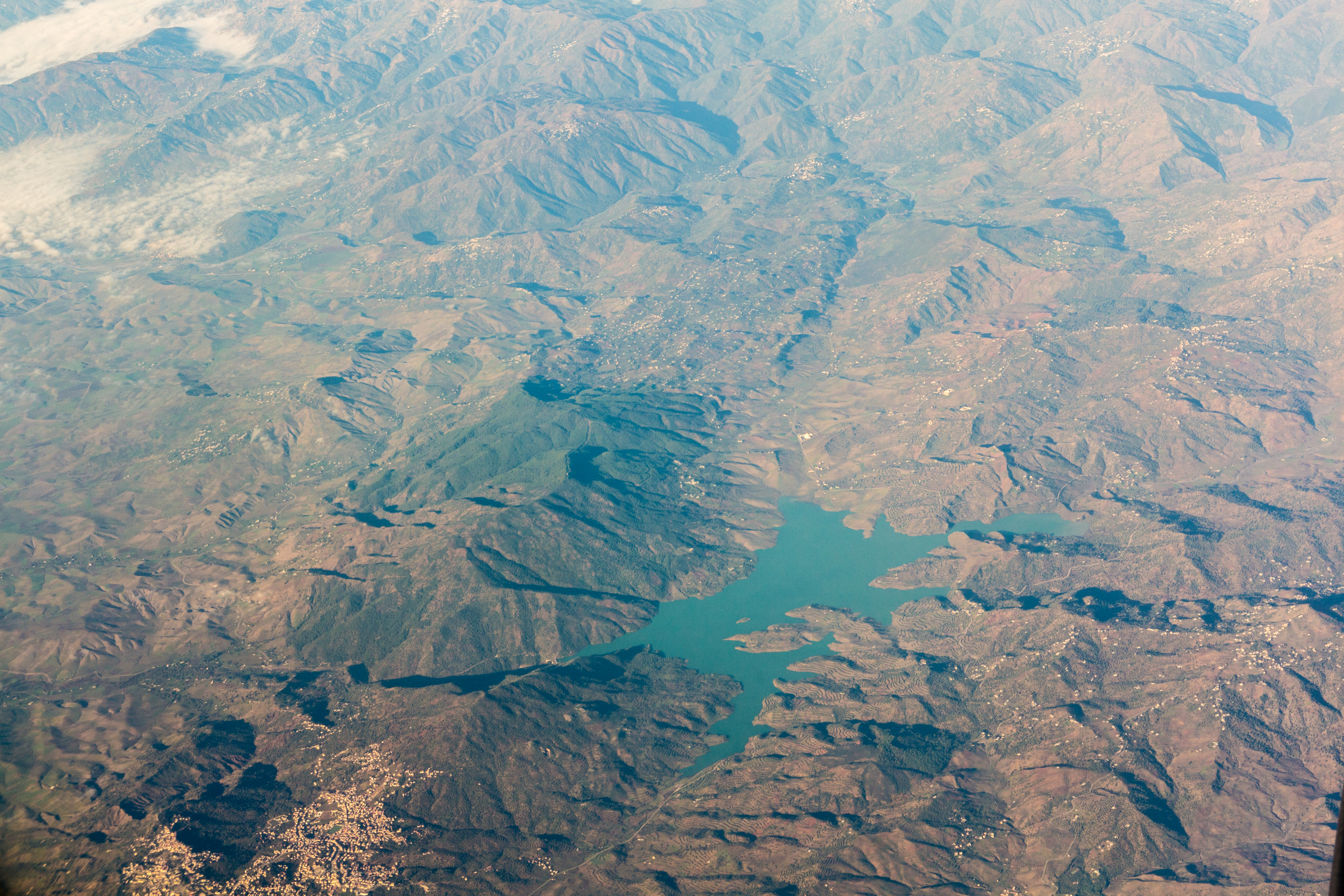 Barrage Sahla